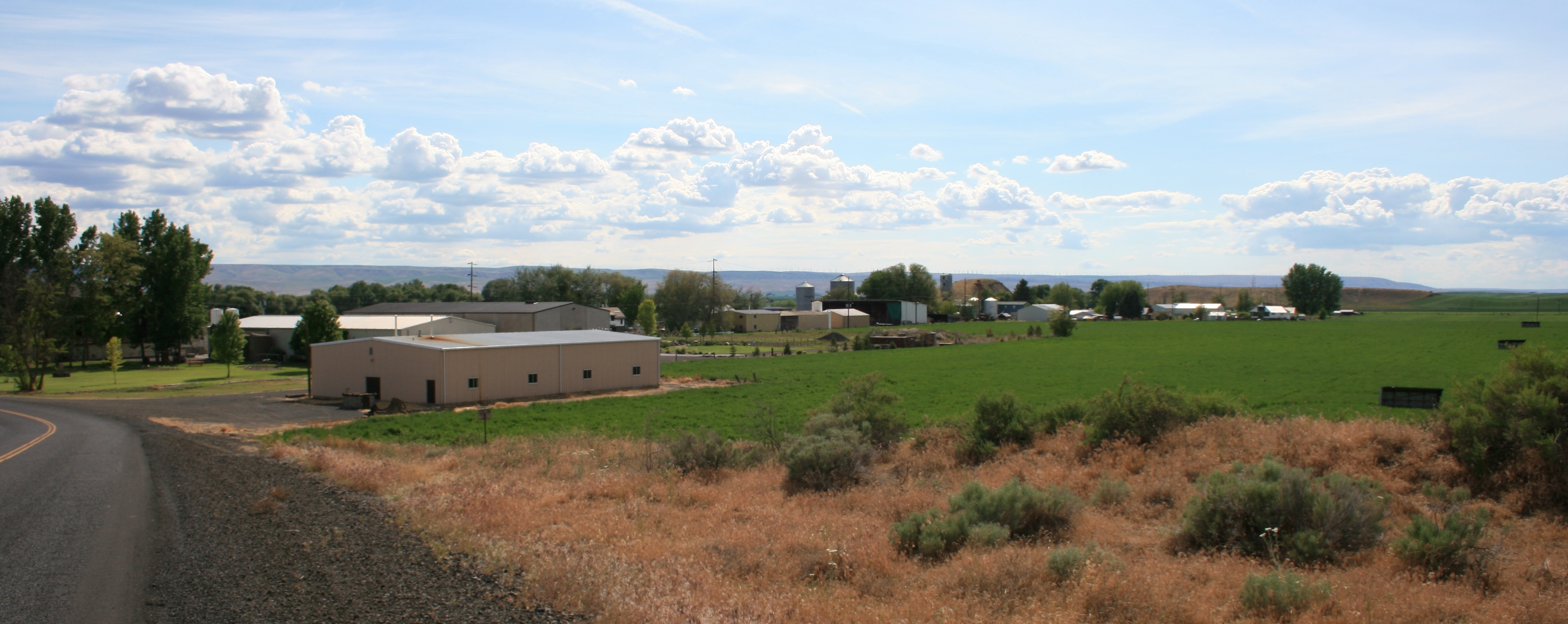 Photo of Lowden, Washington, an unincorporated community in Walla Walla County, Washington, United States. It lies along U.S. Route 12 between Tri-Cities and Walla Walla. The Woodward Canyon Winery is located there. Also located there is the l'ecole 41 Winery which is located in the what used to be the old Lowden Elementary School.